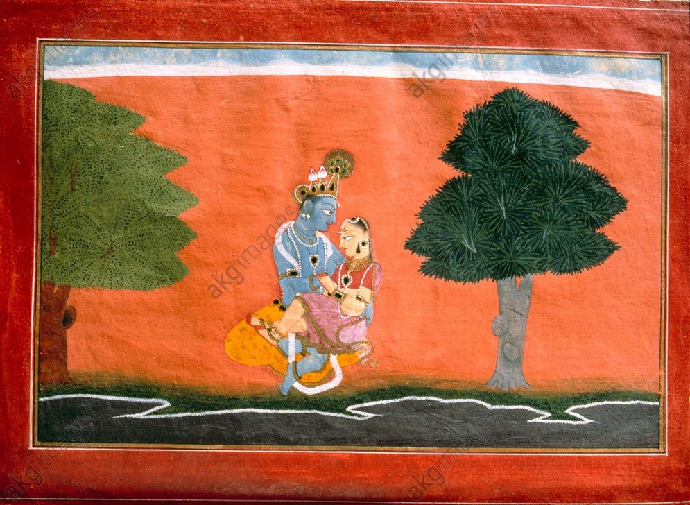 Basholi style Gita govinda series